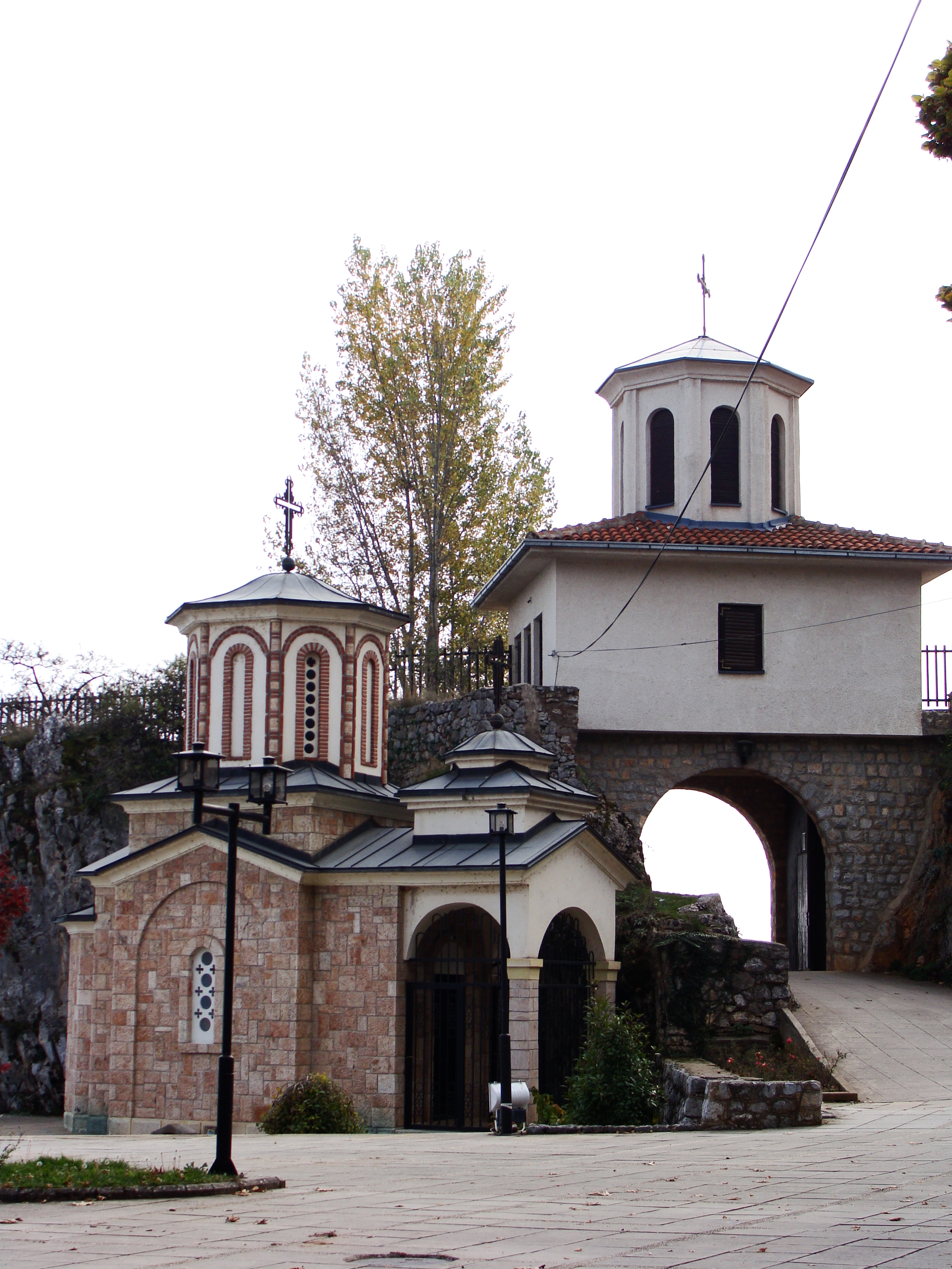 Struga, Kalishta